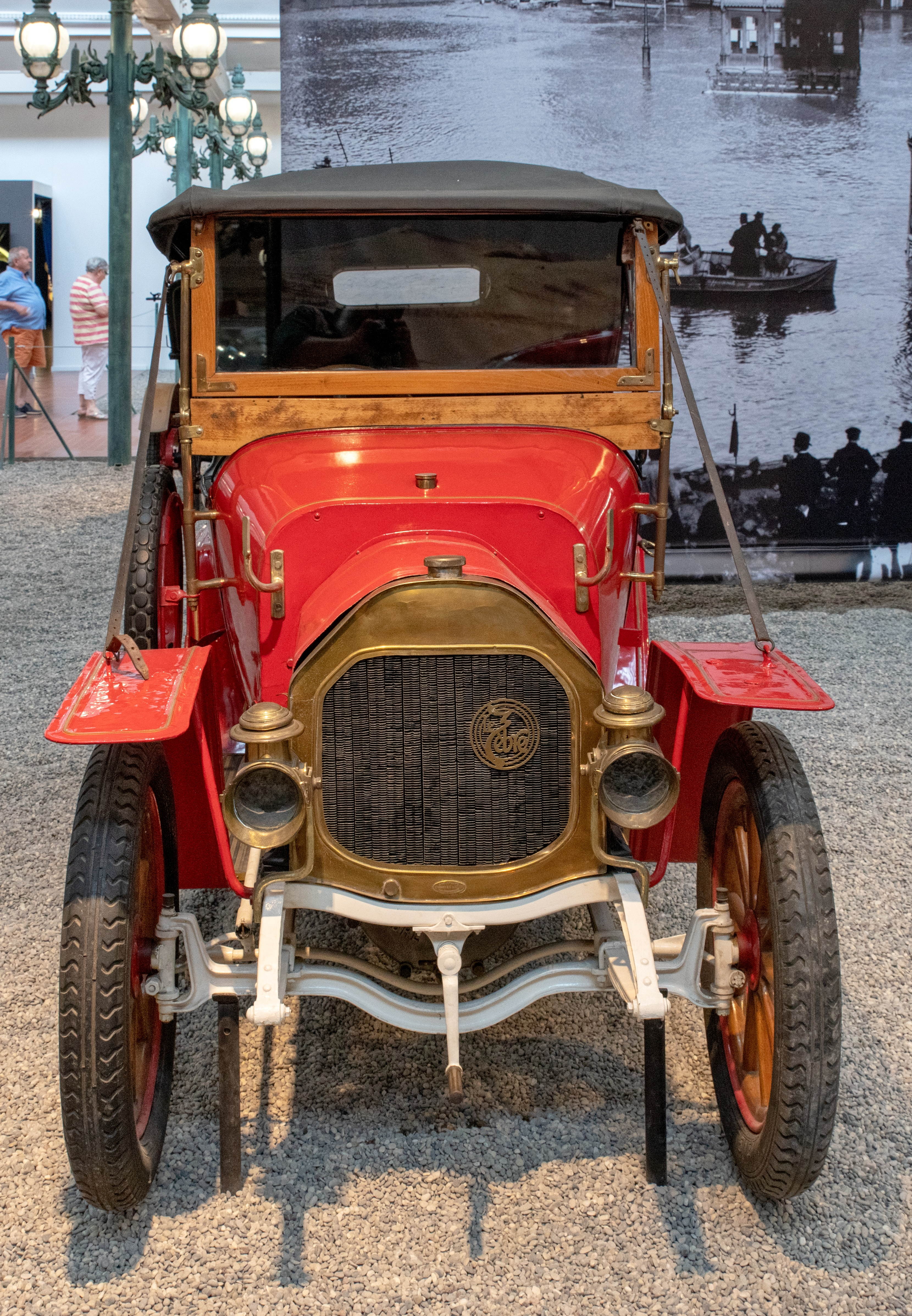 pictures from the Cité de l’Automobile – Musée National – Collection Schlump in Mulhouse, France ptictures from the 10. may 2018